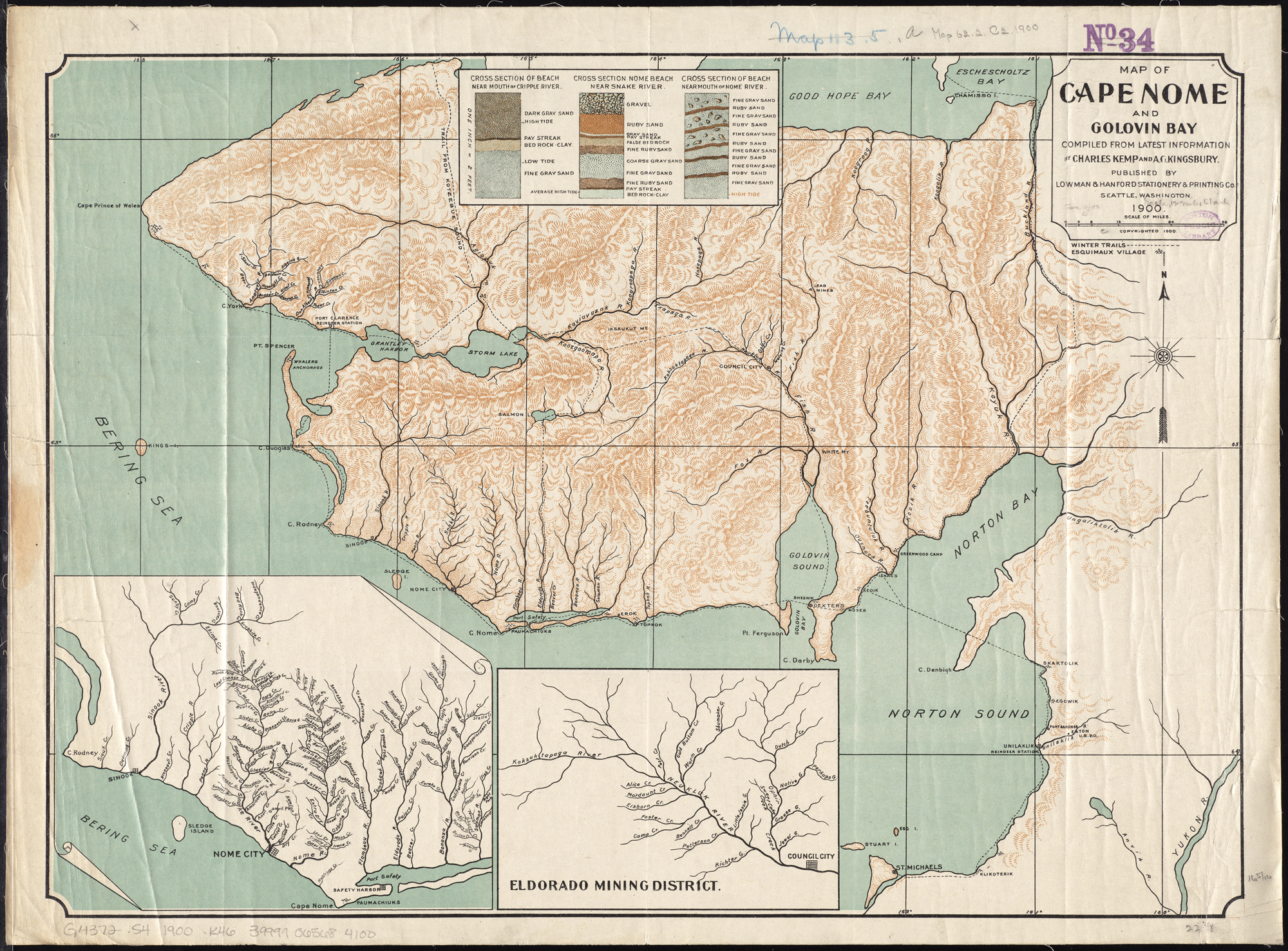 Zoom into this map at . Author: Kemp, Charles Publisher: Lowman & Hanford Date: 1900 Location: Nome (Alaska), Nome, Cape (Alaska : Cape), Seward Peninsula (Alaska) Dimensions: 42 x 58 cm. Scale: [ca. 1:756,000] Call Number: G4372.S4 1900 .K46